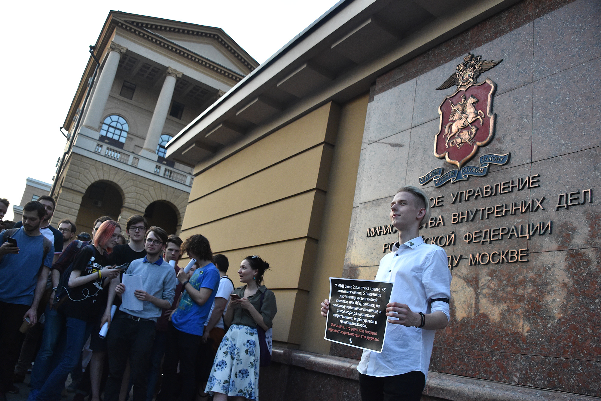 A protester holds a poster with one protester mounting a lone picket protest for detained journalist Ivan Golunov, at Russian Internal Ministry building in Moscow, Russia, Friday, June 7, 2019.